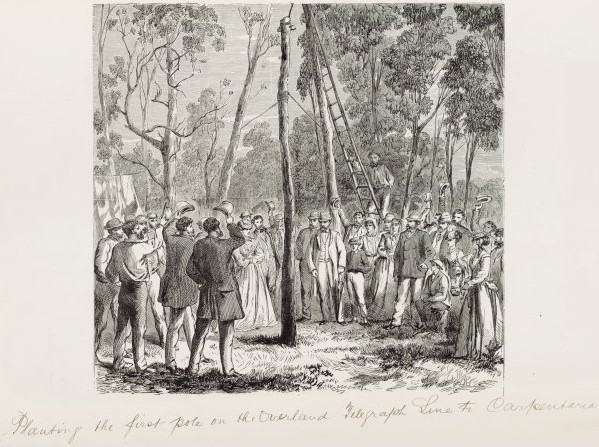 Planting the first pole on the Overland Telegraph line to Carpentaria, Calvert, Samuel, 1828-1913 Wood Engraving ~1870, Held in the collection of the National Library of Australia